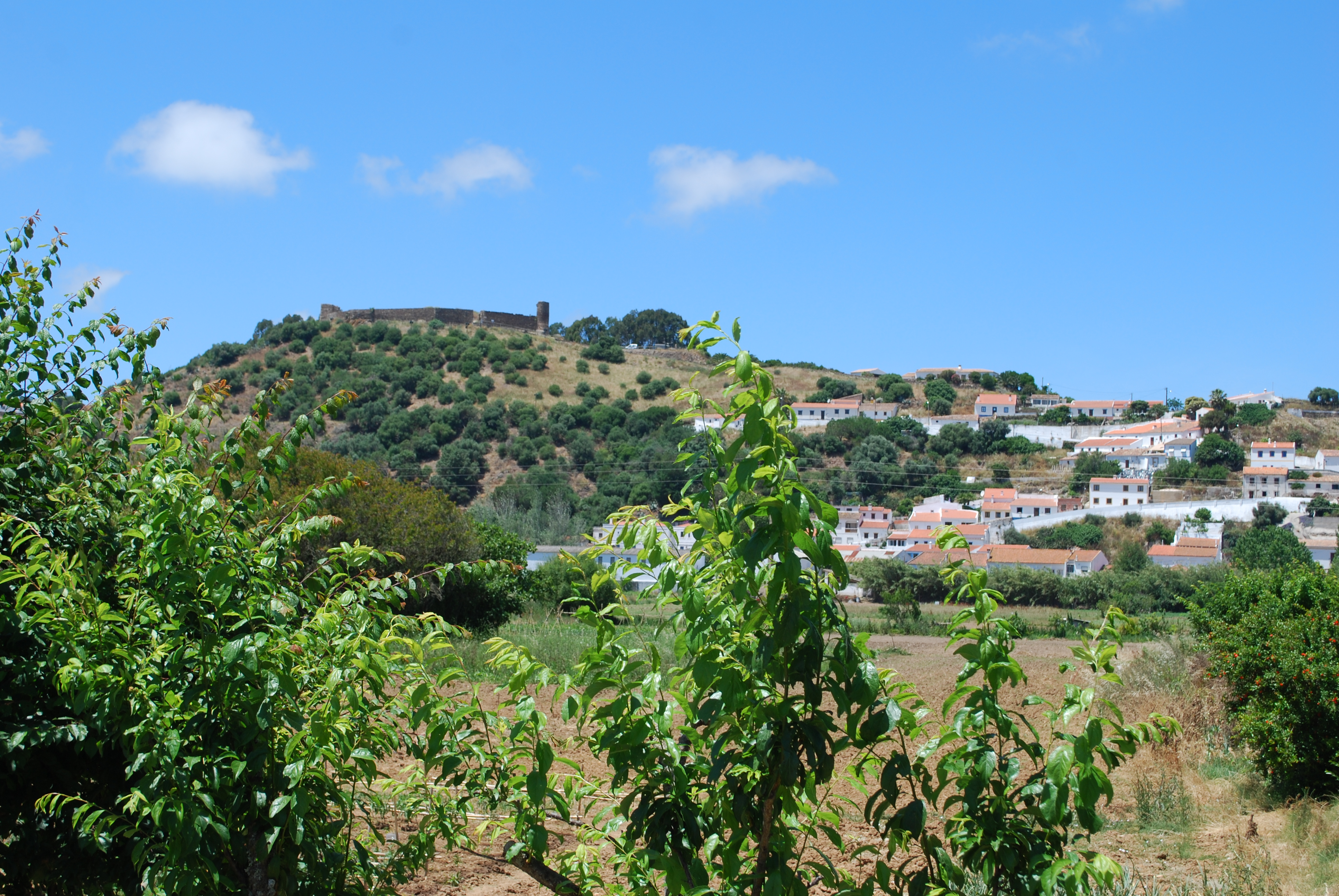 This file was uploaded for Wiki Loves Monuments in Portugal with the unique identifier 74149.